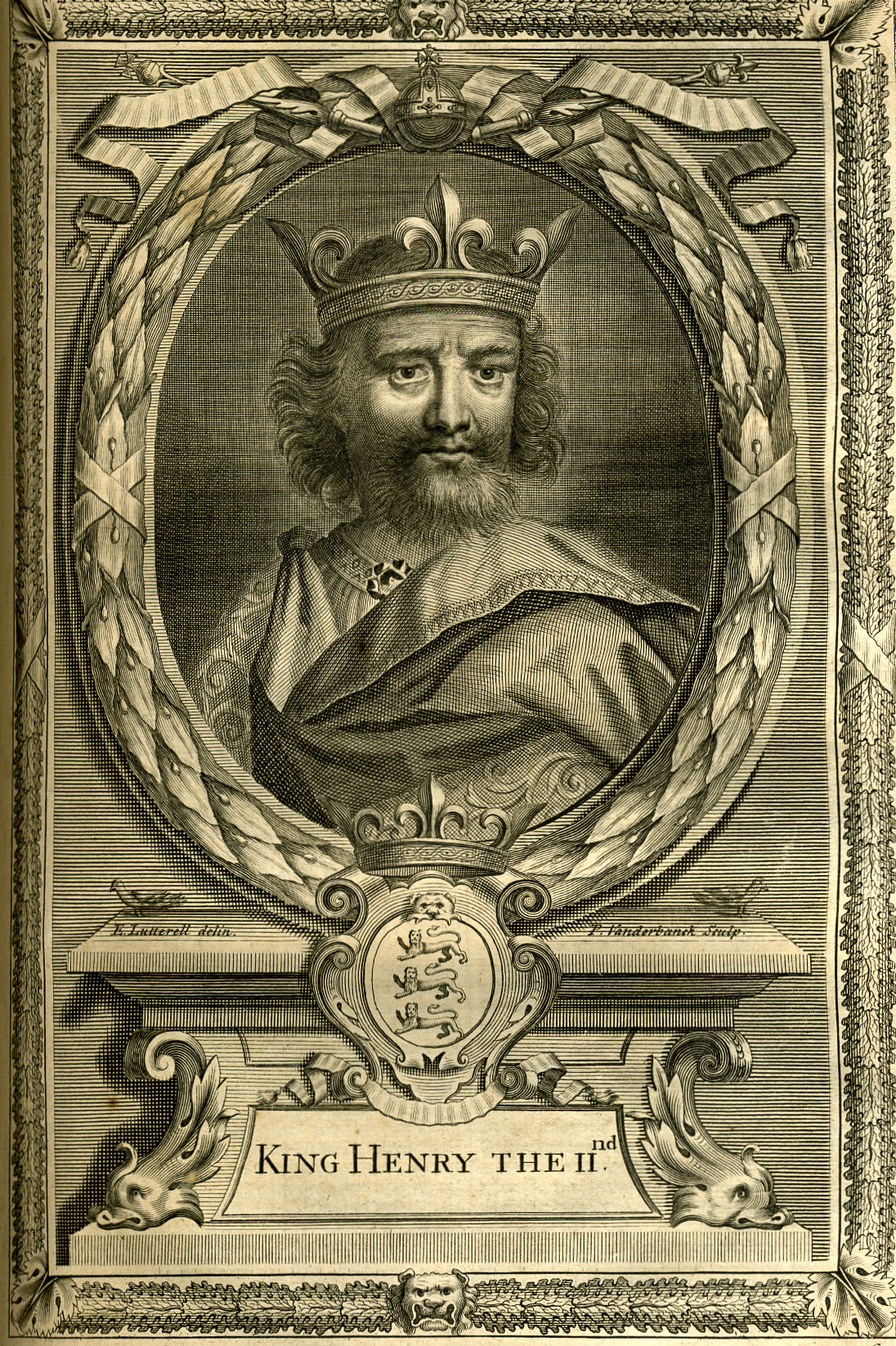 King Henry II of England as depicted in an engraving from "A Complete History of England: with the Lives of All the Kings and Queens Thereof", 1719